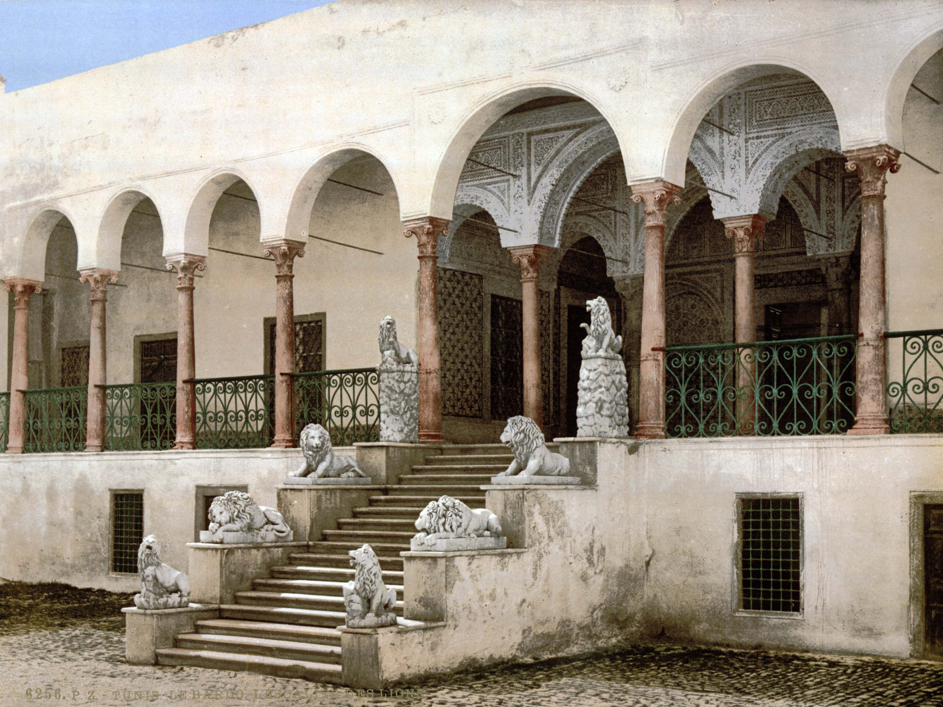 Photograph of the Lions Staircase in the Bardo Palace, Tunis, Tunisia. This color photochrome print was taken in 1899 in Bardo, Tunisia.